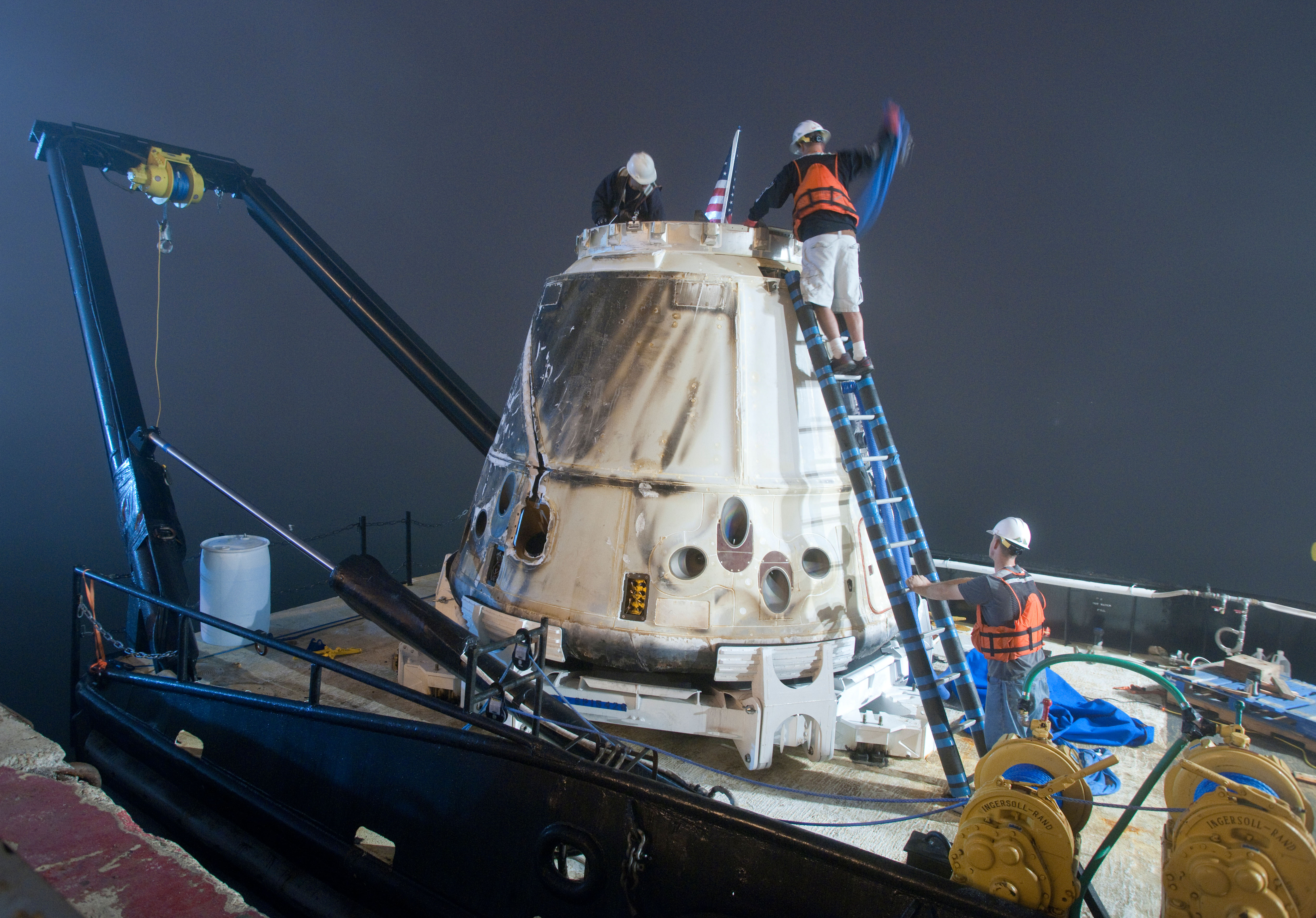 ed12-0346-20 (30 Oct. 2012) --- SpaceX's Dragon capsule is seen shortly after arriving at a port near Los Angeles on Oct. 30, 2012. Dragon had just completed its first commercial resupply mission to the International Space Station and returned 1,673 pounds of science and supplies back to Earth.